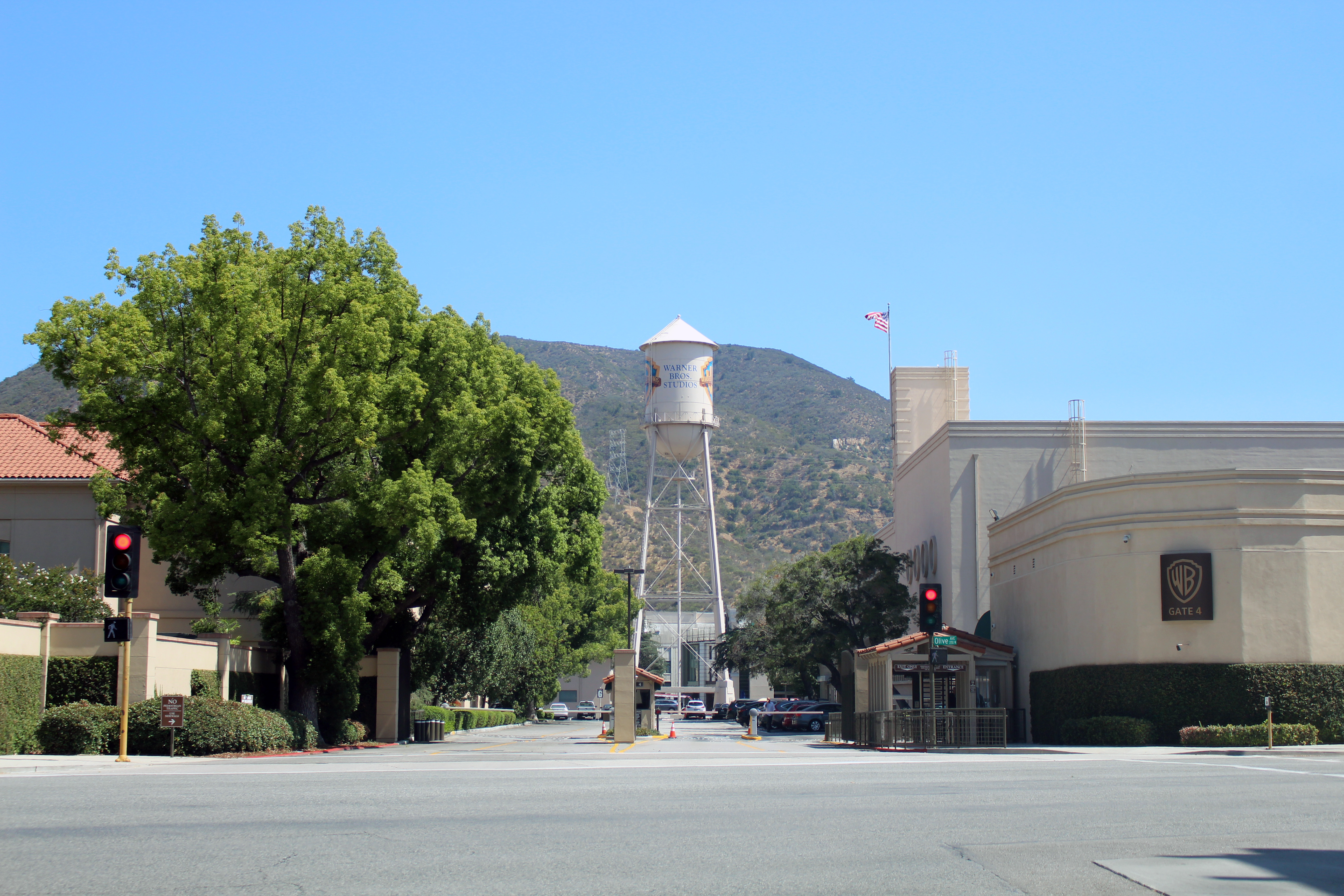 Gate 4, Warner Bros. Studios, in Burbank, California, facing south towards WB's famous water tower. Photographed on July 11, 2016 by user Coolcaesar.